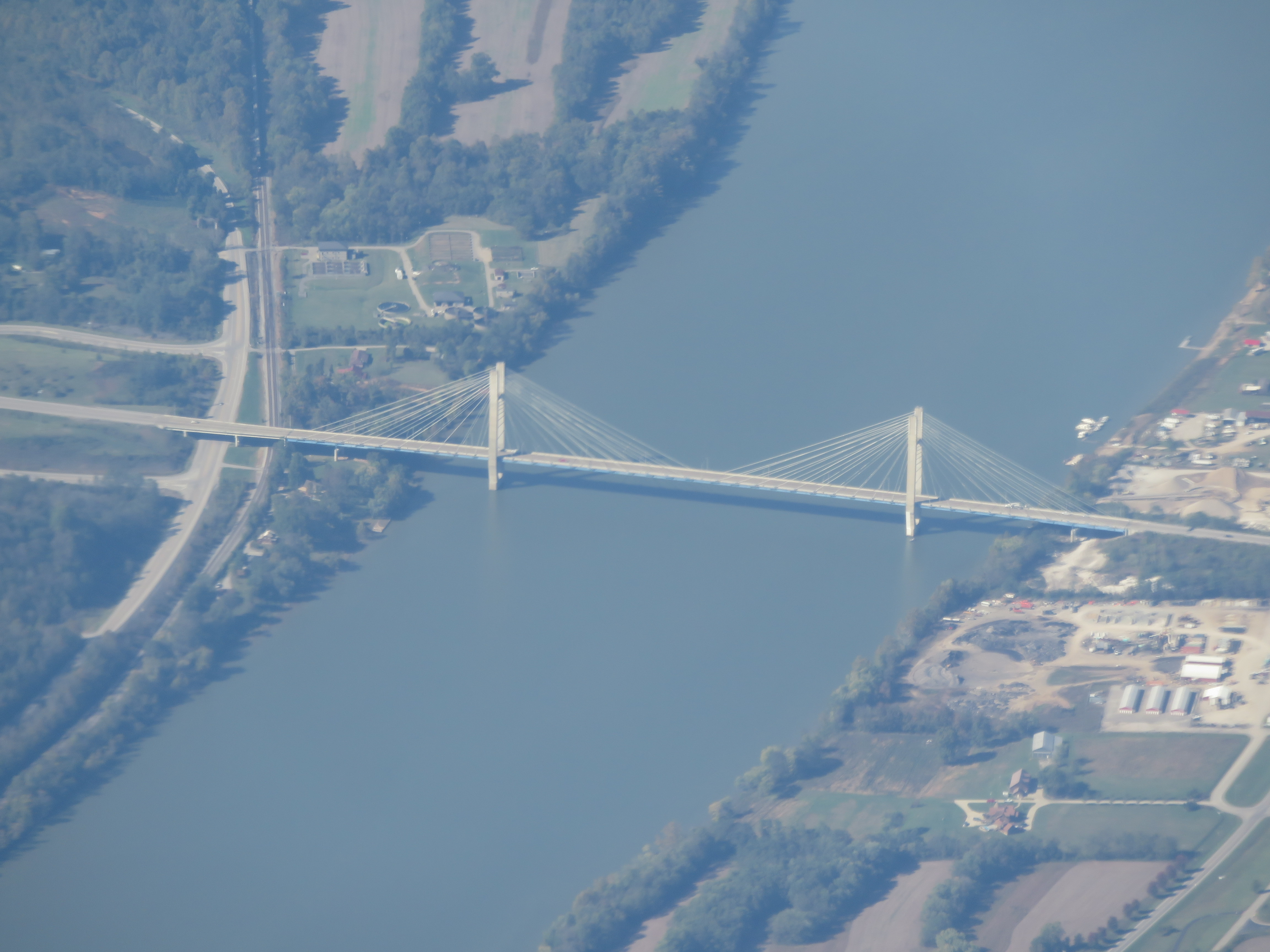 Aerial view of the William H. Harsha Bridge over the Ohio River in 2017